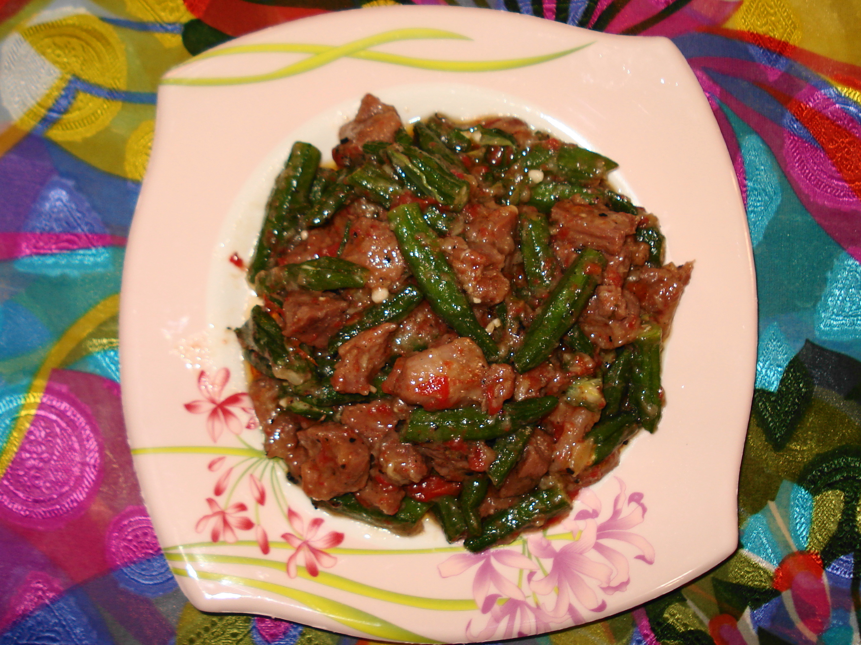 Bamje is a Bosnian Dish very tasty and delicious